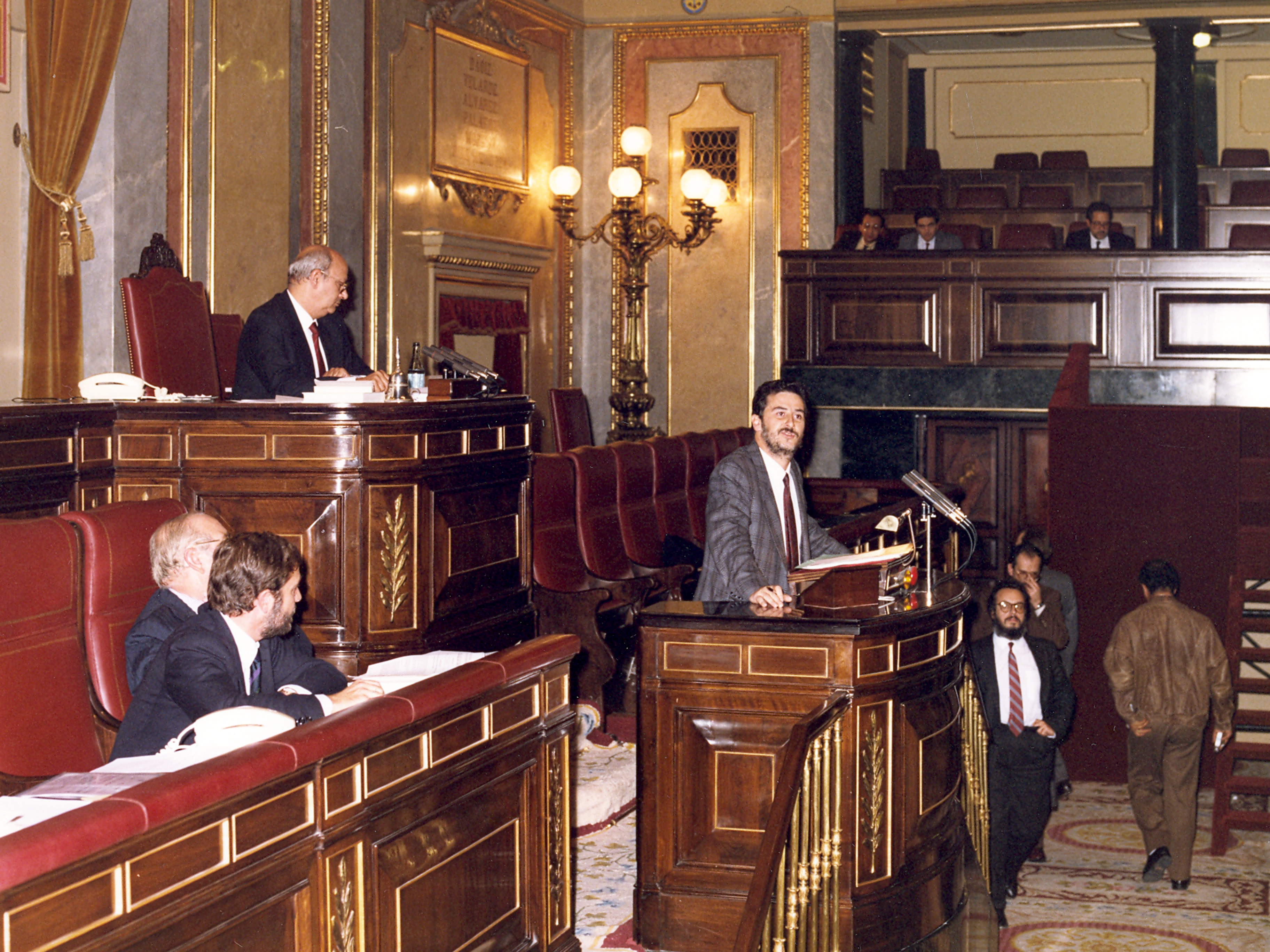 Pleno Congreso 11/11/88